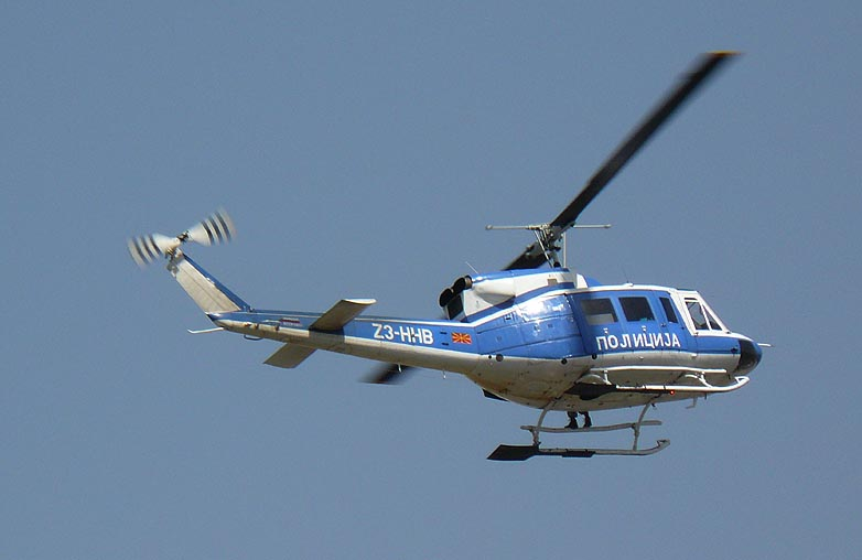 Z3-HHB of Macedonian Police